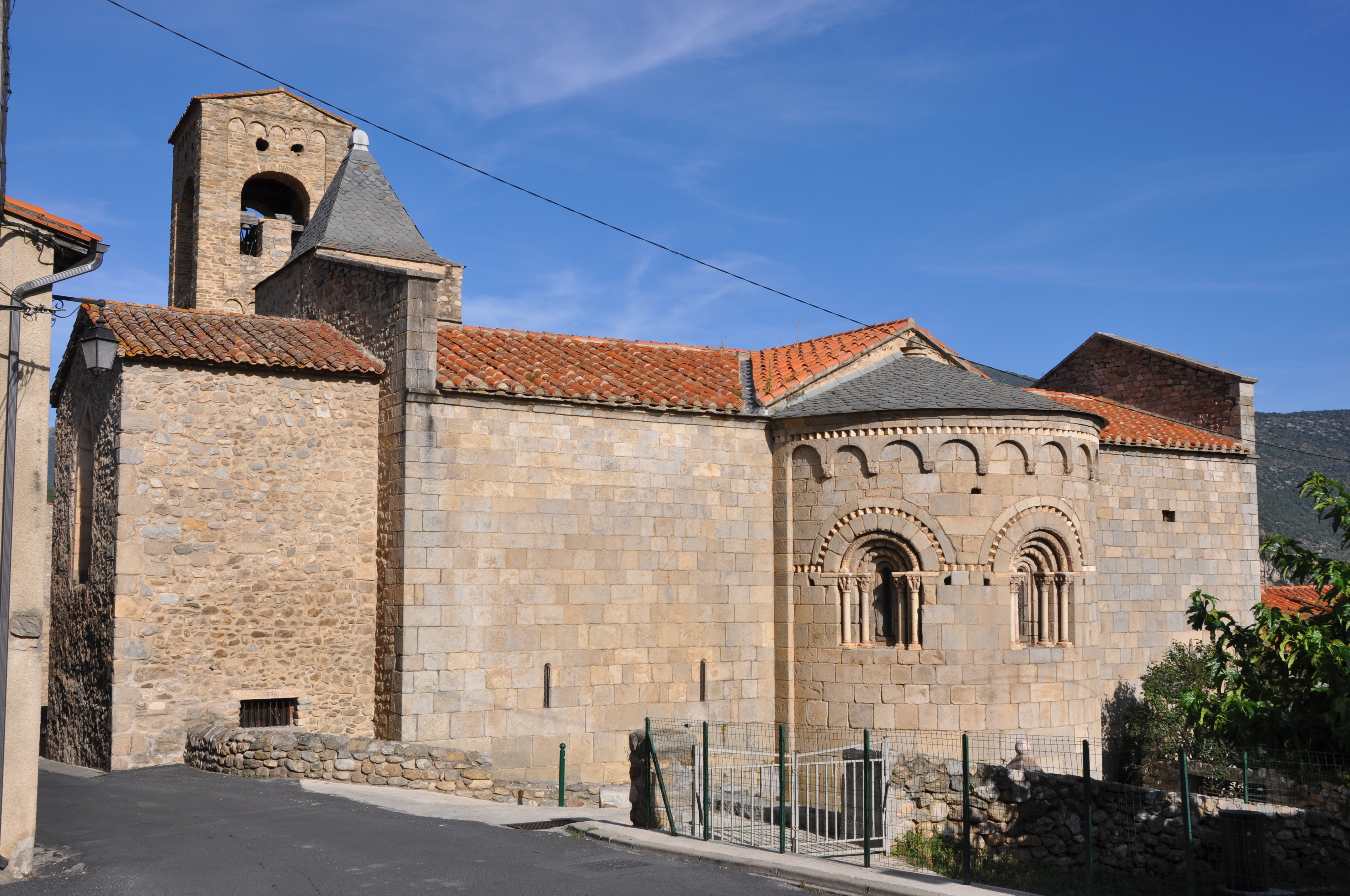 Cornellà de Conflent. Church of St. Mary, formerly a monastery of regular canons. Apse. 12th C.